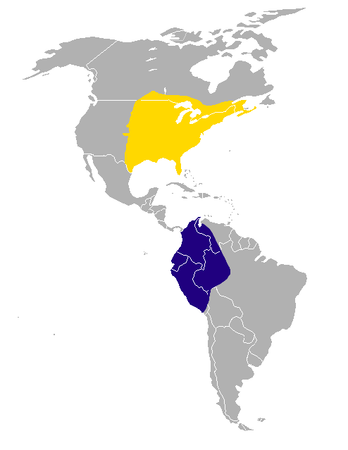 Range map for the Chimney Swift (Chaetura pelagica)